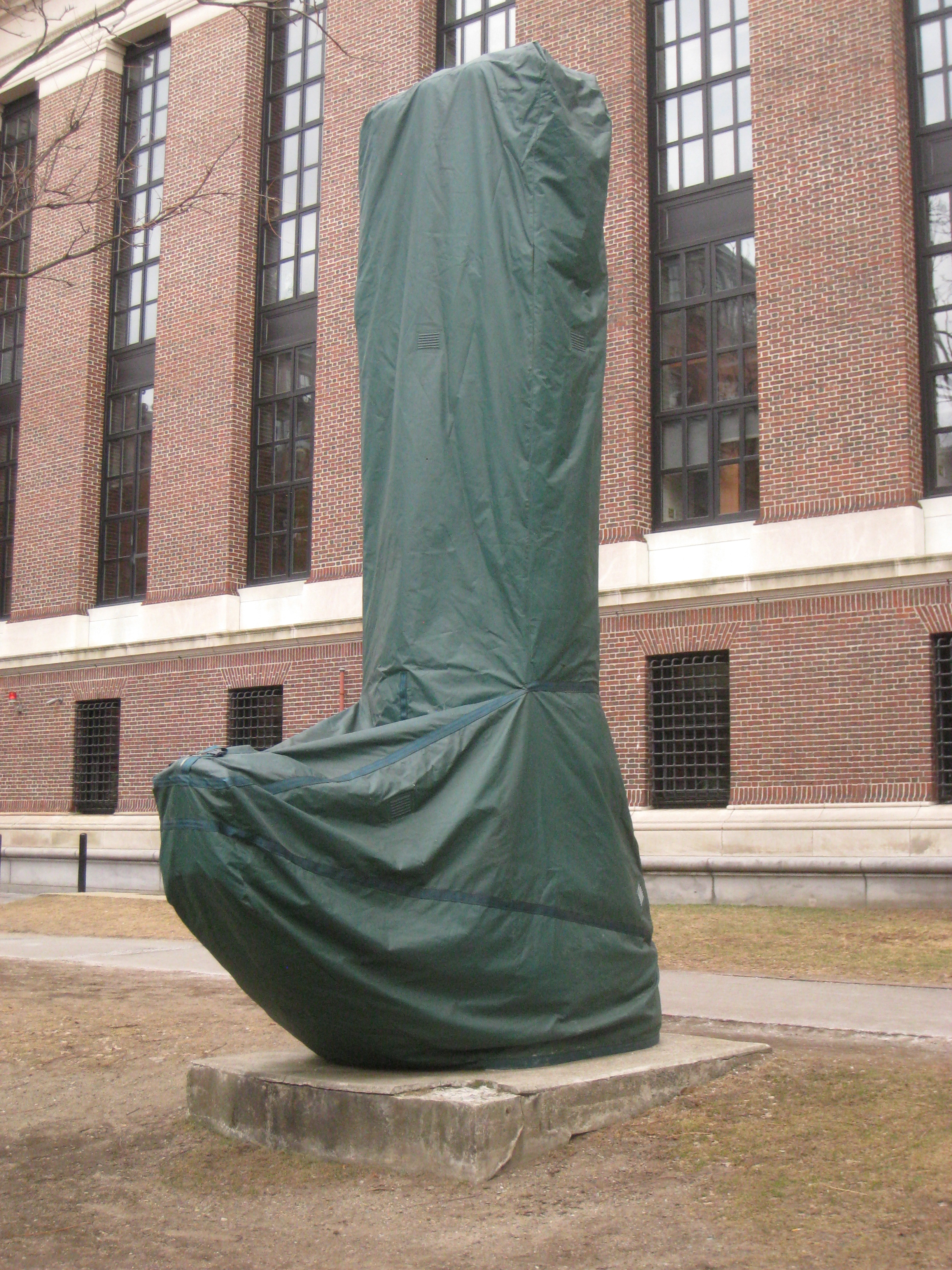 Bixi stele wrapped for the winter, Harvard University, Cambridge, Massachusetts, USA. This building is on the National Register of Historic Places.